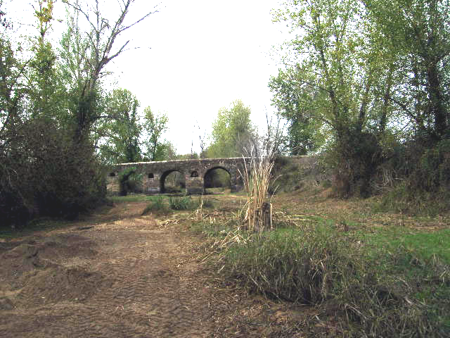 Roman bridge over the Odivelas river, municipality Cuba, Baixo Alentejo, Portugal